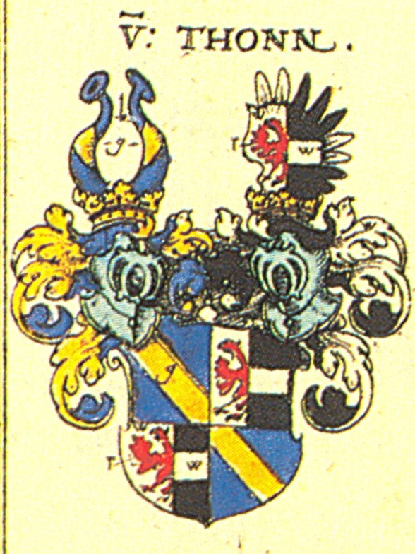 Coat of arms of the Thun und Hohenstein, or Thonn family. Taken from Johann Siebmacher: New Wappenbuch, page 93.